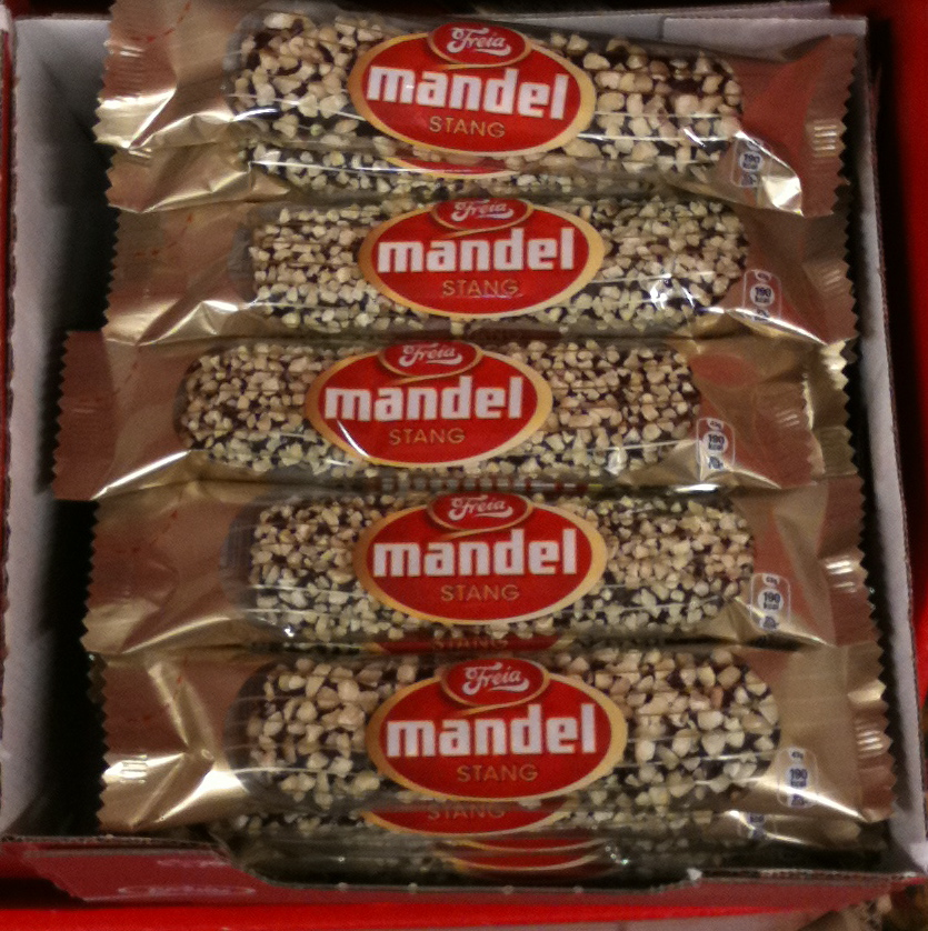 Mandelstang a Norwegian chocolate bar